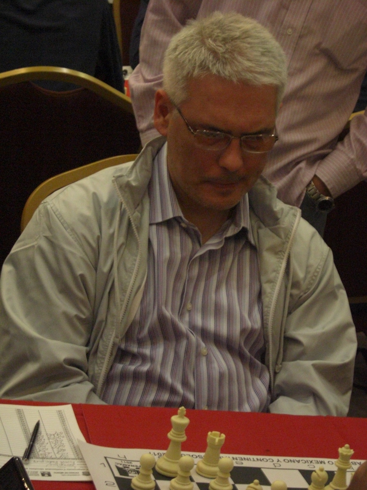 Ildar Ibragimov during the American Continental Chess Championship in Toluca (Mexico), April 2011